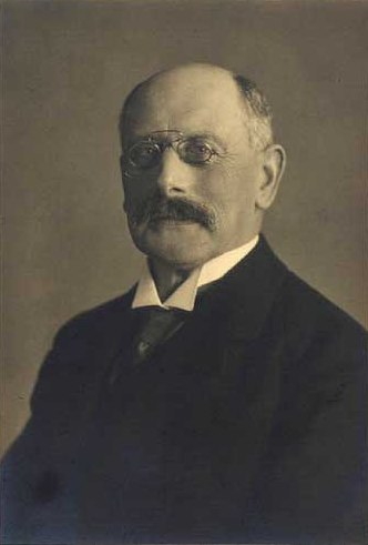 Danish landowner and politician, MP Anton Bing (1849-1926)